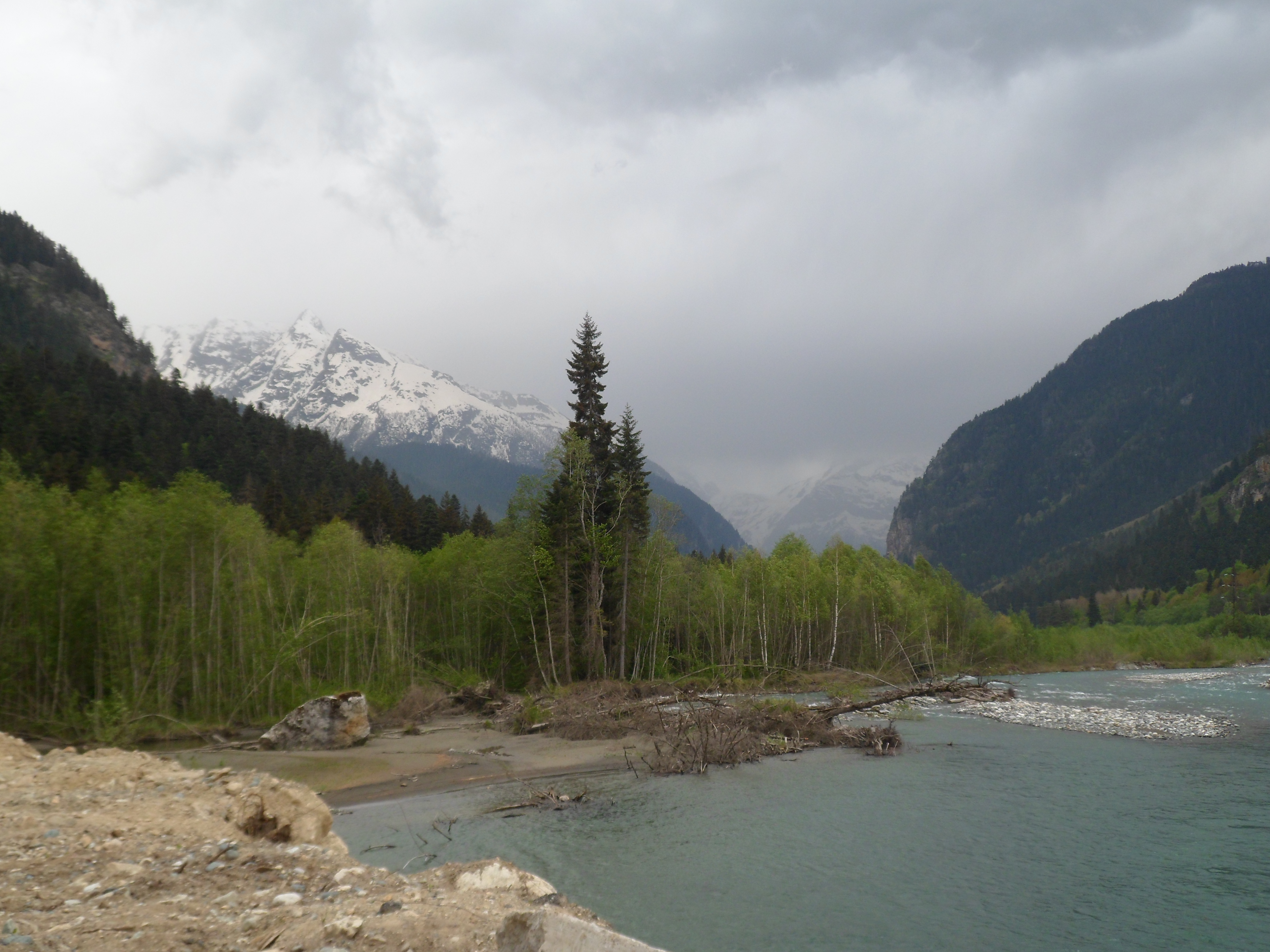 Река очень яркого бирюзового цвета, когда светит солнце